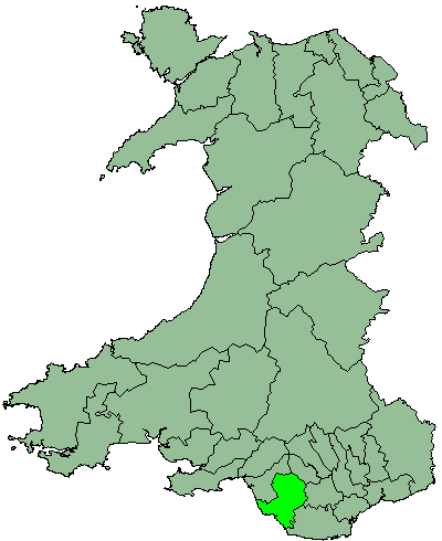 Locator map for Ogwr (1974) within Wales.